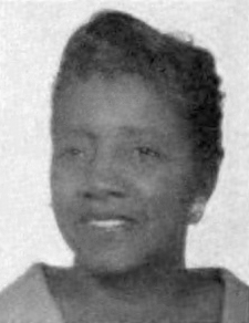 Michigan State Representative Maxcine Young